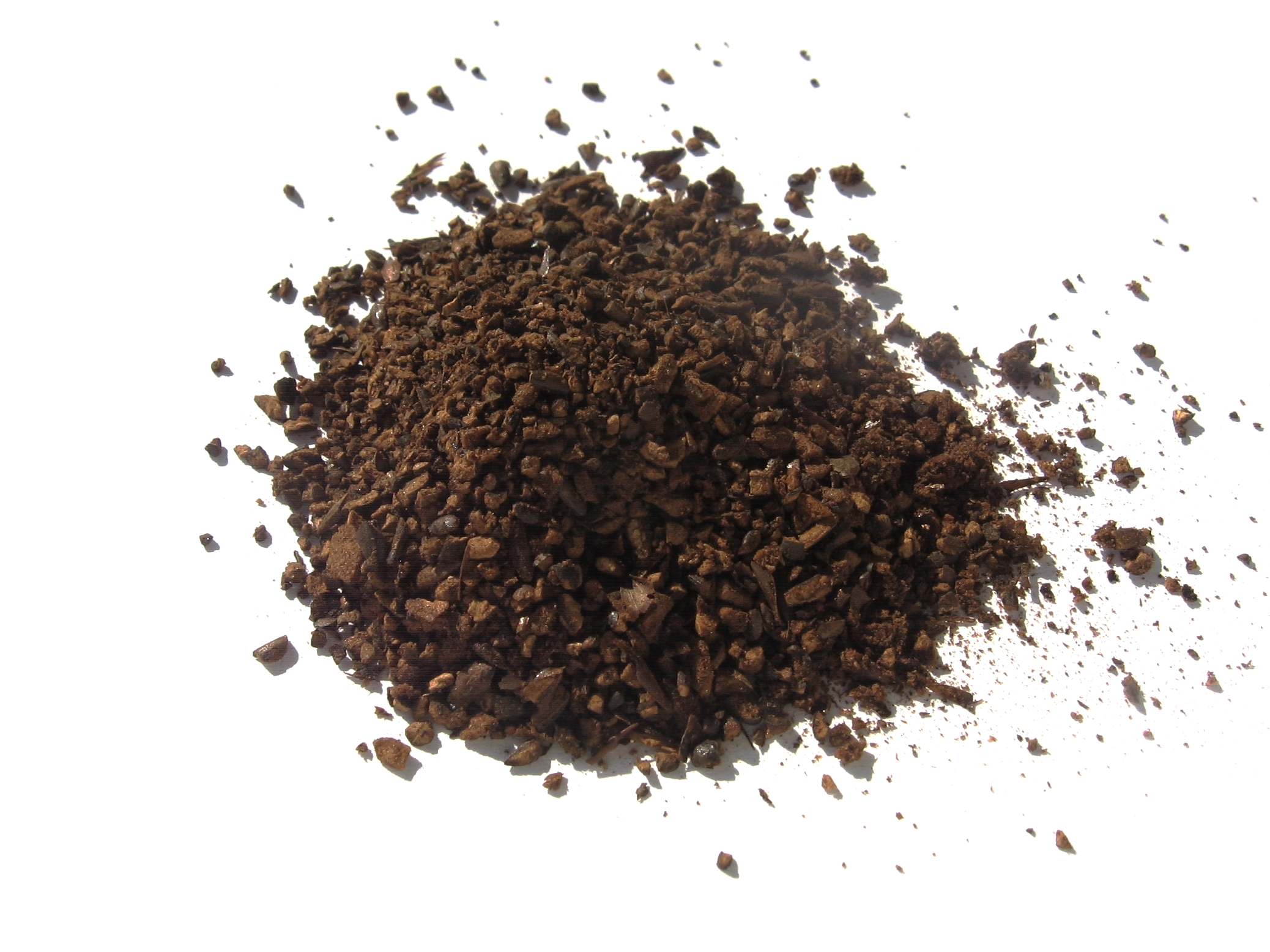 The powder of non-instant roasted grain beverage Kujawianka („kawa zbożowa” in Polish), contains: roasted: rye (60%), barley (20%) chicory and sugar beet. Made by Polish brand Bakalland.